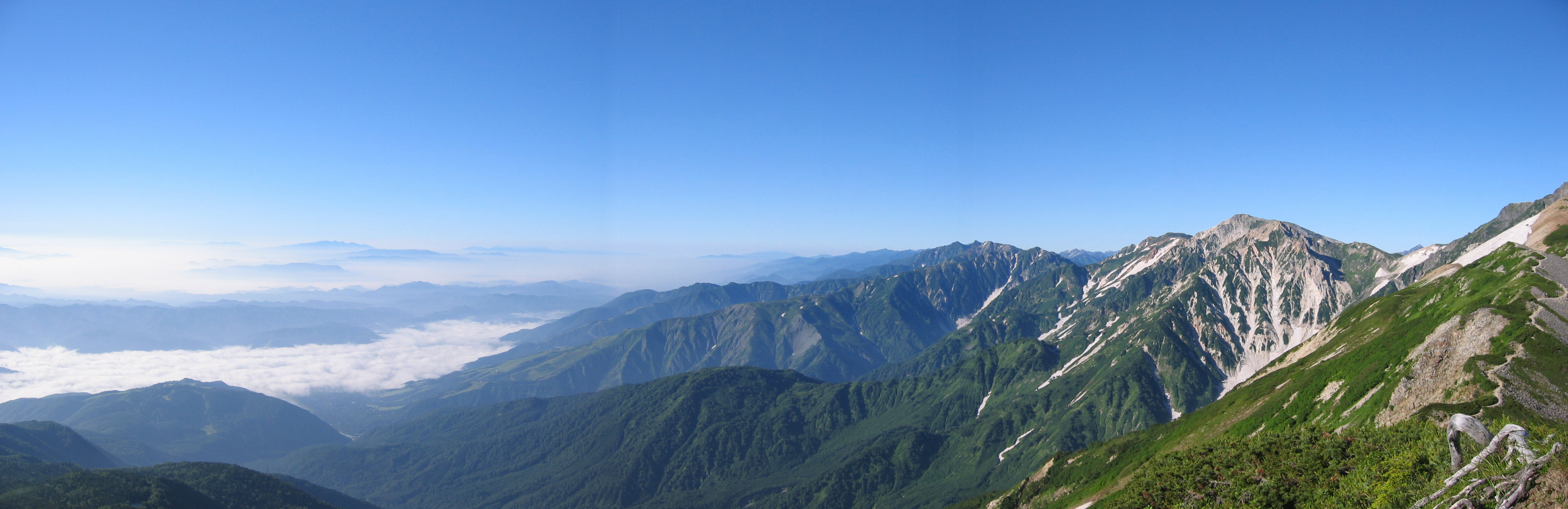 Southward view from Mount Korenge in the Hida Mountains, Japan